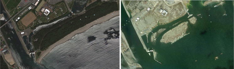 Source: Anawat Suppasri, Nobuo Shuto, Fumihiko Imamura, Shunichi Koshimura, Erick Mas, Ahmet Cevdet Yalciner: "Lessons Learned from the 2011 Great East Japan Tsunami: Performance of Tsunami Countermeasures, Coastal Buildings, and Tsunami Evacuation in Japan", Pure and Applied Geophysics, 170, 6-8, (2013), pp. 993–1018, online published on 7 July 2012, here: p. 1002, Figure 12 ("Control forest in Rikuzen-Takata city. Approximately 70,000 pine trees were completely swept away"), Licence: Creative Commons Attribution 2.0 Generic (CC BY 2.0). URL of the image file: Caption as given in the above cited source: "Figure 12 - Control forest in Rikuzen-Takata city. Approximately 70,000 pine trees were completely swept away" Context as given in the above cited source: "An example of a great loss of control forests is in Rikuzentakata city. The city is known for having a 2 km stretch of shoreline lined with ~70,000 pine trees (Fig. 12, left). The 2011 tsunami, which was nearly 20 m high, swept away the entire forest; only one 10 m high, 200-year-old tree remains (Fig. 12, right). This surviving tree became a very important symbol of the reconstruction for people in the city. The forest not only could not protect the town but also increased the impact of the tsunami because of floating debris."